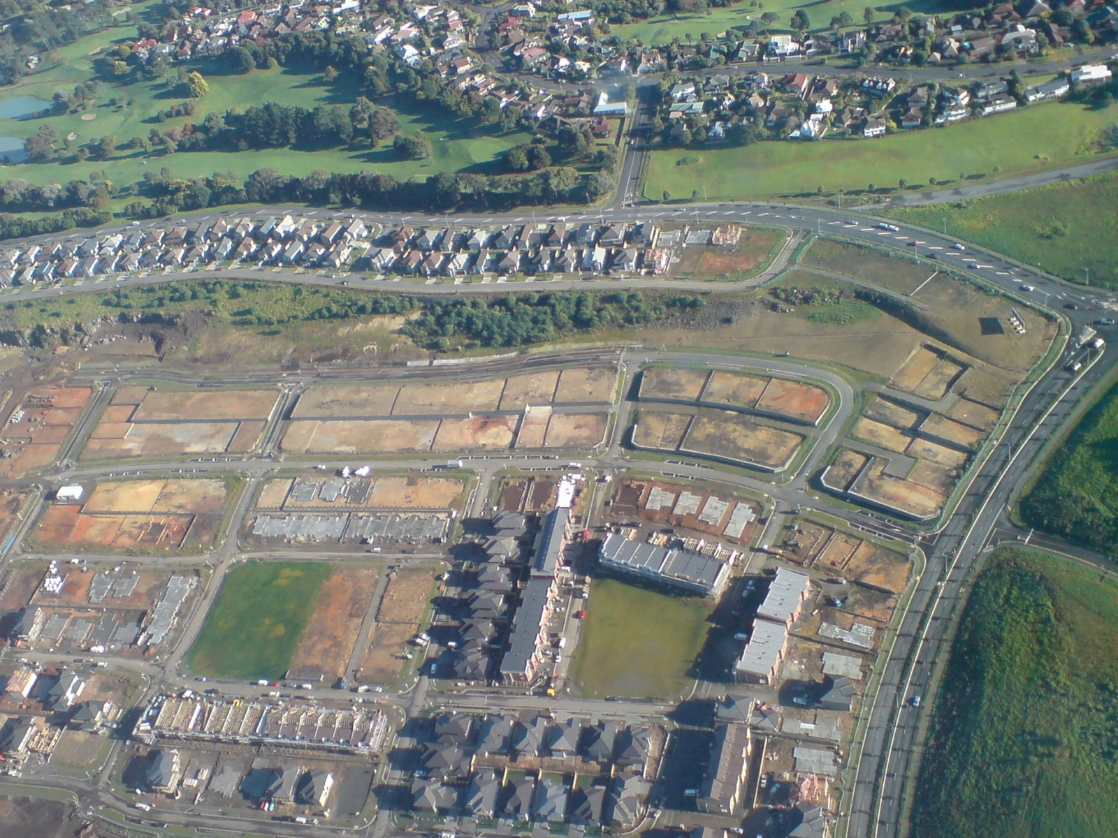 Stonefields, a new eastern suburb/residential quarter of Auckland City, New Zealand. It is located just northwest of Mount Wellington in a former quarry, and surrounded by existing suburbs. Seen from a light plane looking down and west.